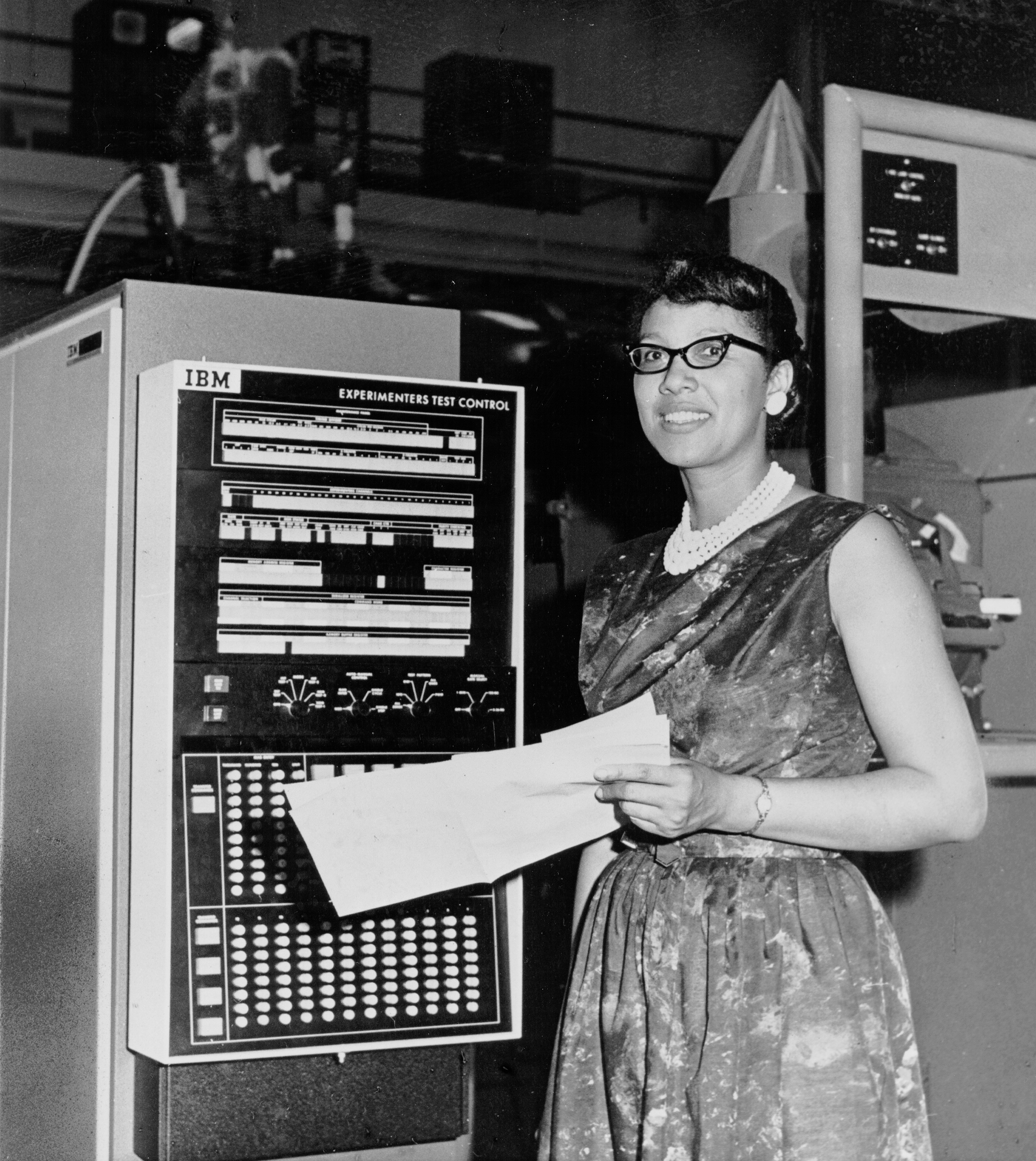 Melba Roy heads the group of NASA mathematicians, known as "computers," who track the Echo satellites. Roy's computations help produce the orbital element timetables by which millions can view the satellite from Earth as it passes overhead. She went on to become Program Production Section Chief at Goddard Space Flight Center.